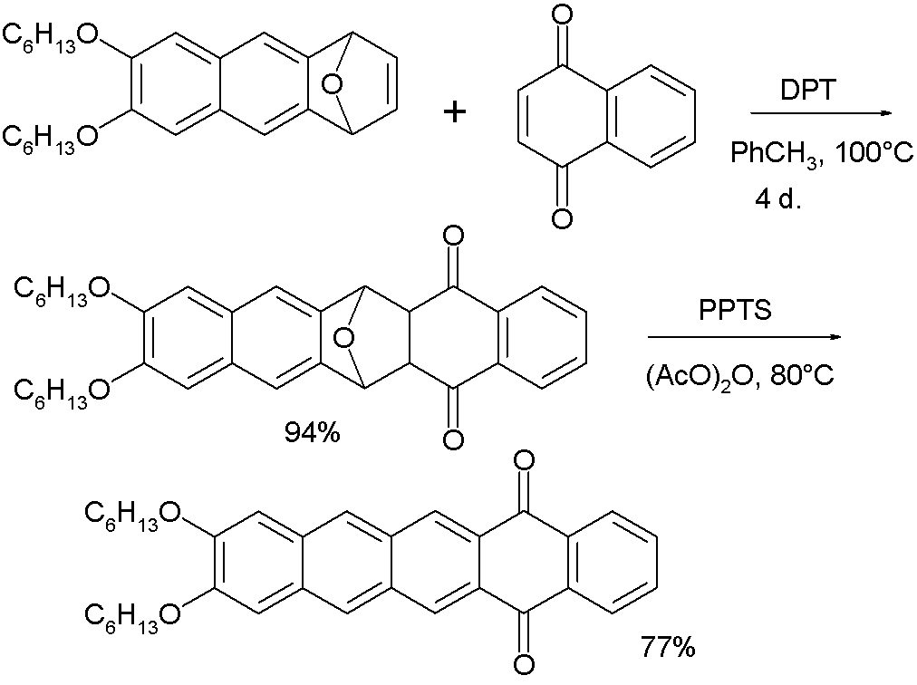 Pentacenequinone